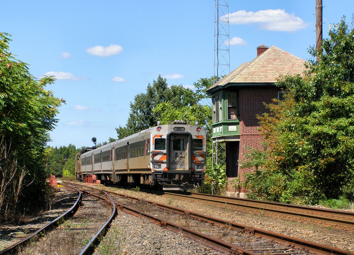 A New Jersey Transit Atlantic City Line trainset blows past the closed WINSLOW tower at Winslow Junction, just north of Hammonton, New Jersey. The Philadelphia-bound train is trailed by Comet IV cab car #5018.